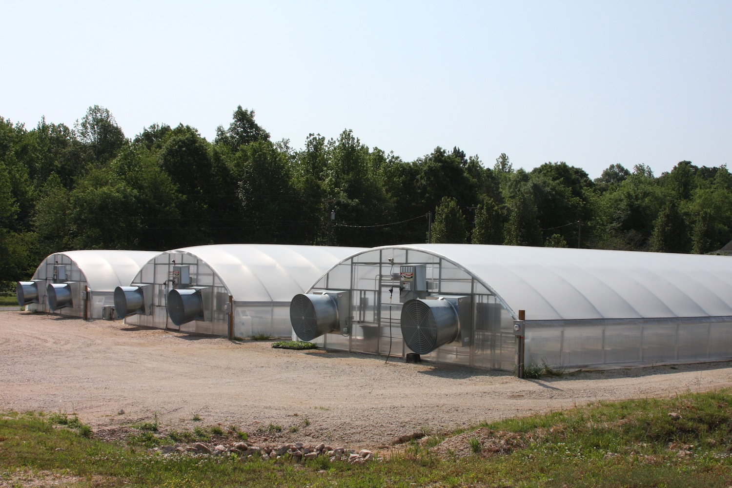 The N.C. State University Plants for Human Health Institute greenhouse complex near the N.C. Research Campus in Kannapolis, N.C.